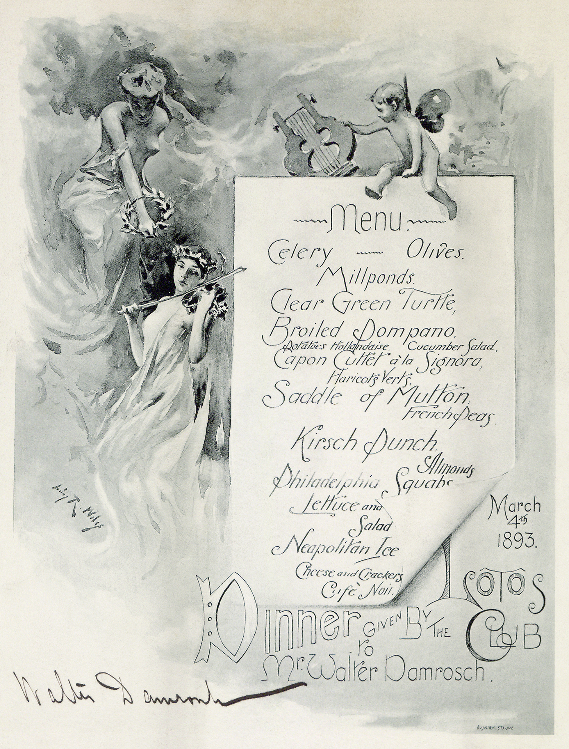 Scan of a prix fixe menu from Lotos Club, New York City, March 4, 1893.